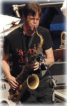 Donny McCaslin with Maria Schneider Orchestra - Toronto Jazz festival (2009)